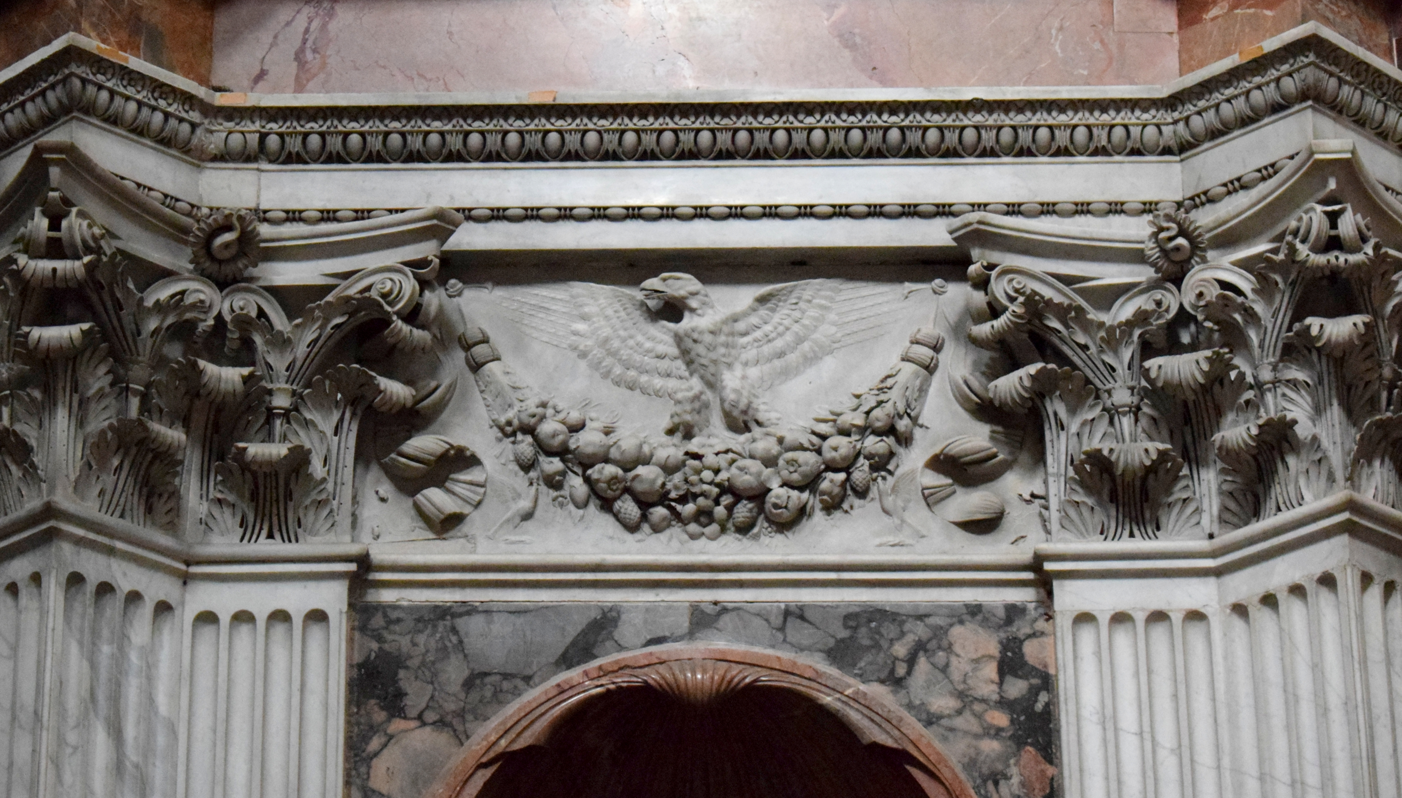 The frieze of the Chigi Chapel, Santa Maria del Popolo. Panel to the right of the altar.